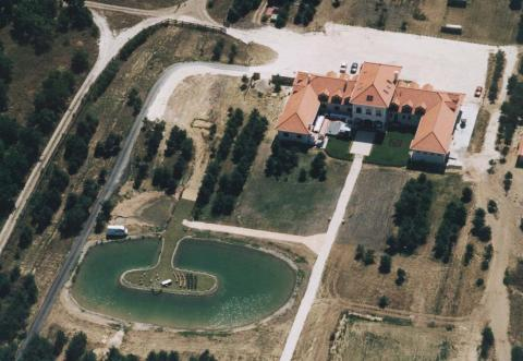 Inrács, Hungary, aerialphotography